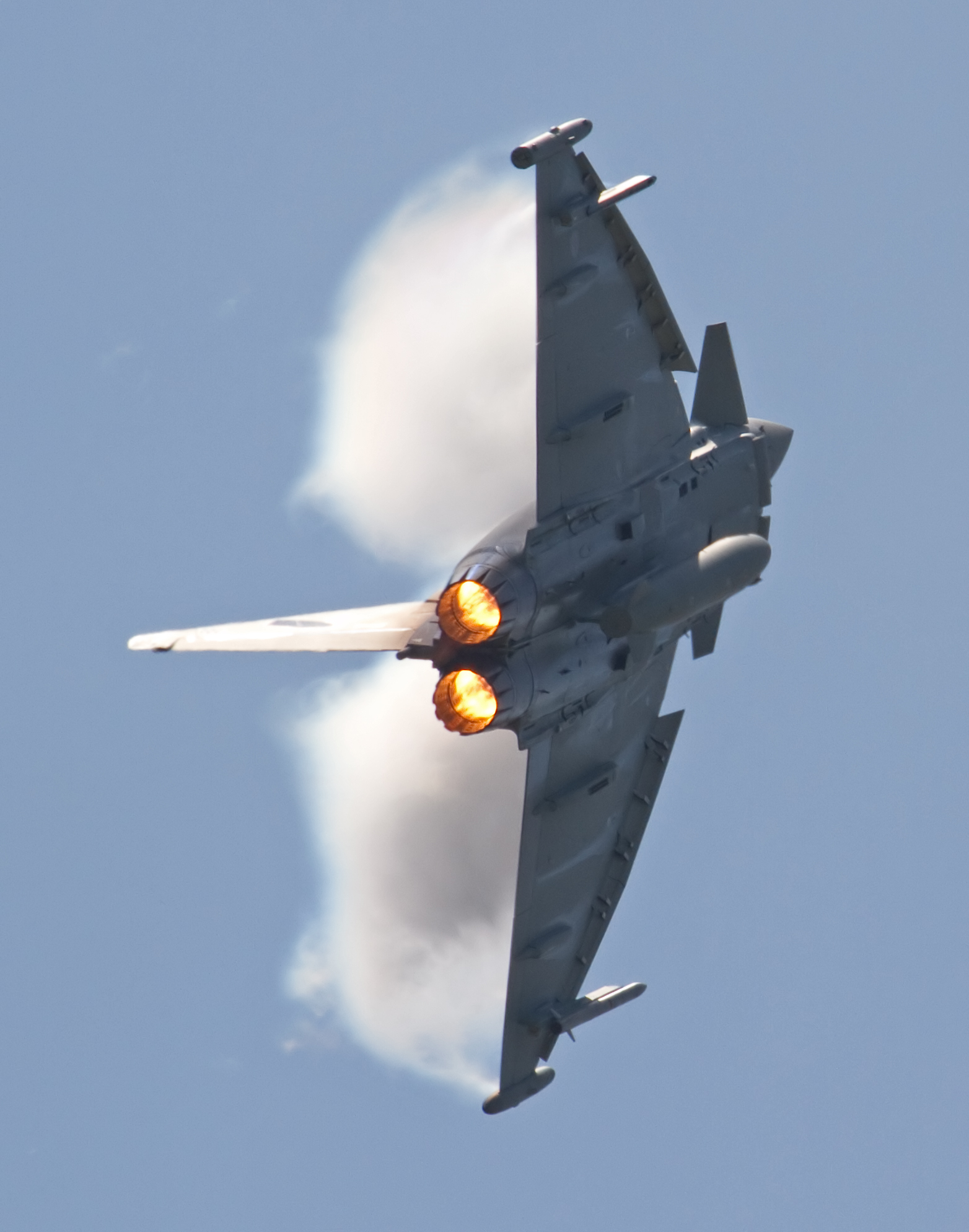 Typhoon 5